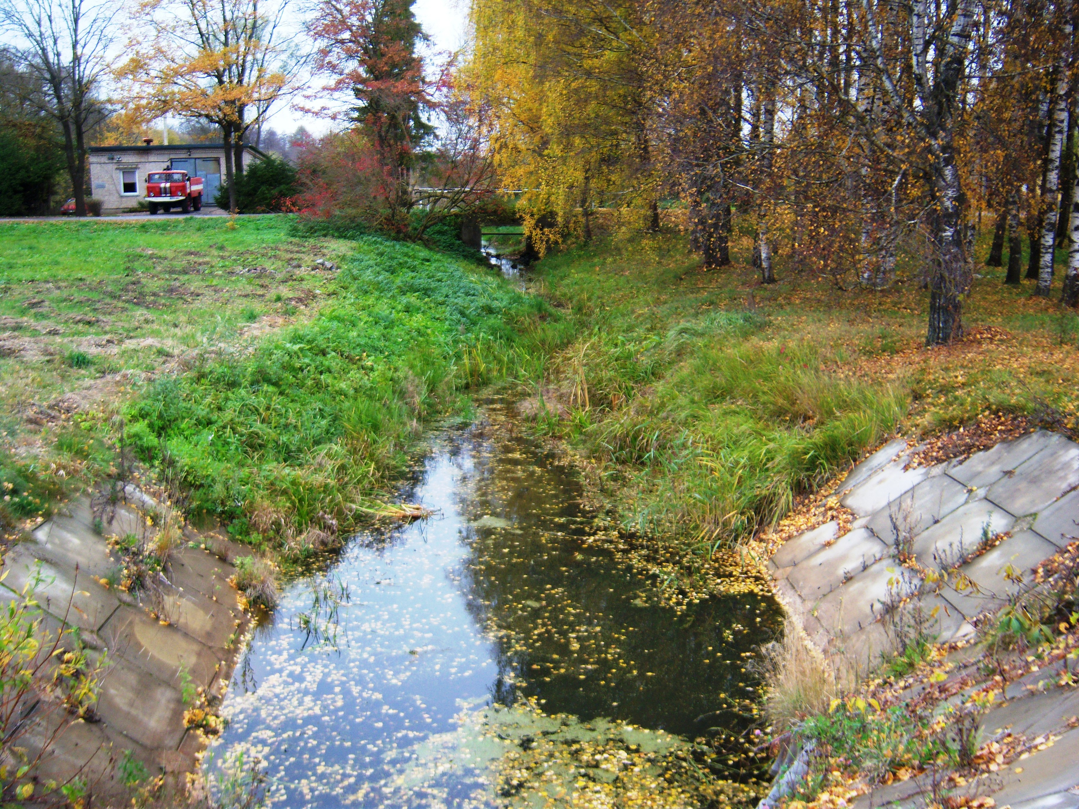 Mituva stream, Skapiškis, Kupiškis District, Lithuania